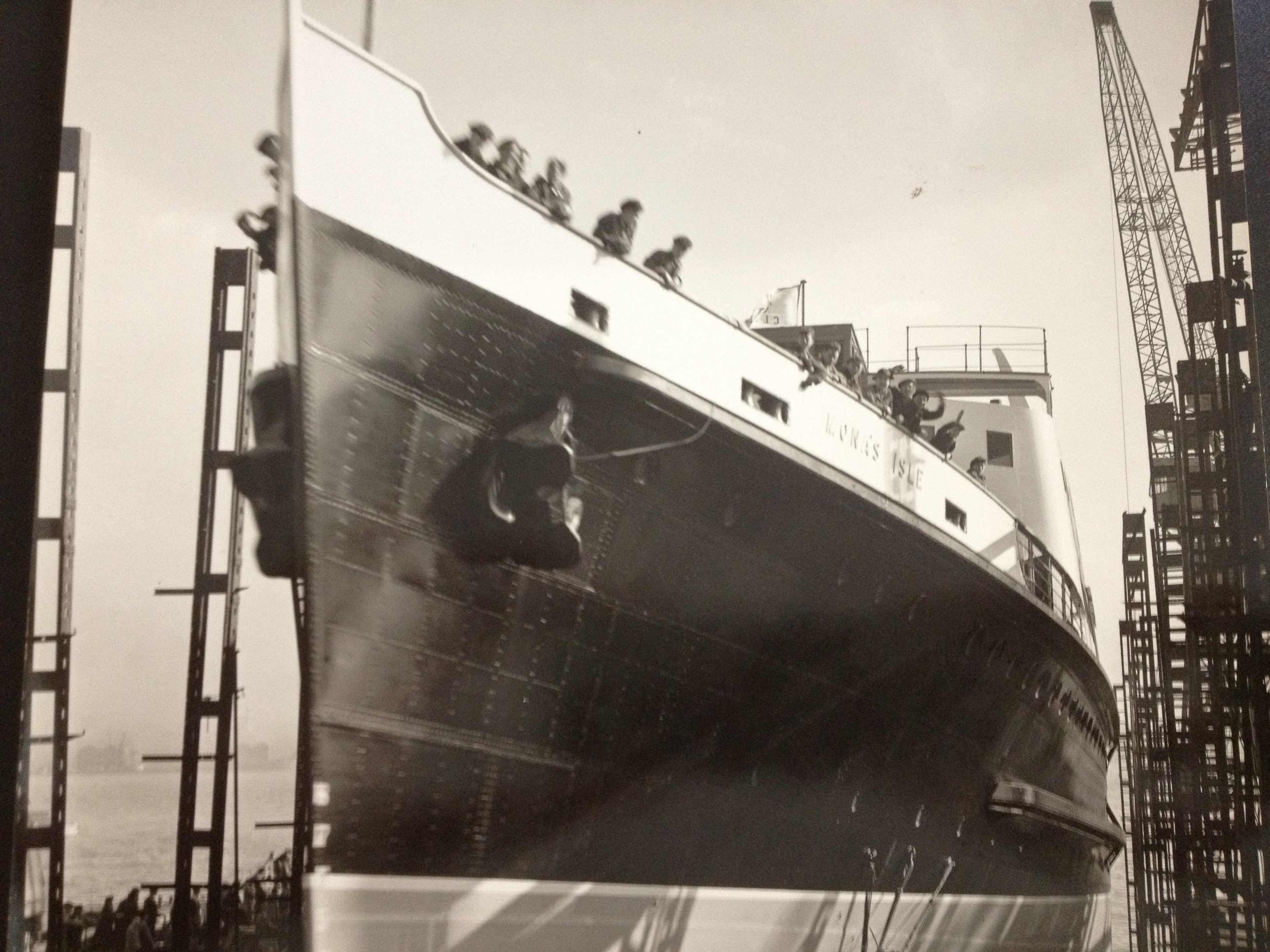 Mona's Isle being launched at Cammell Laird's, Birkenhead, 12th October, 1950.